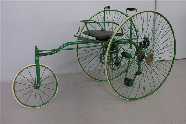 Bayliss Thomas Tricycle